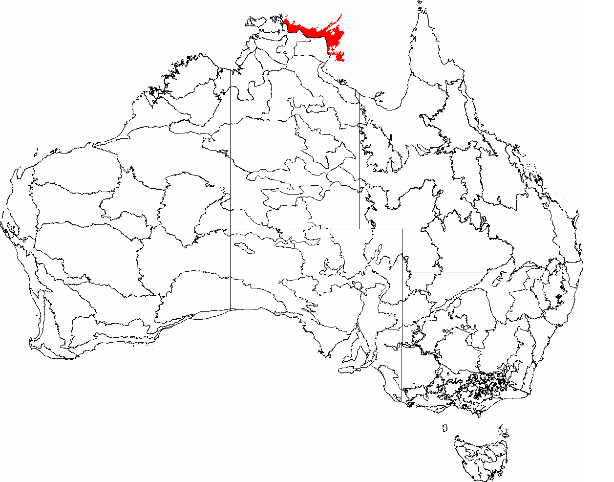 This is a map of the Interim Biogeographic Regionalisation of Australia (IBRA), with state boundaries overlaid. The Arnhem Coast region is shown in red.